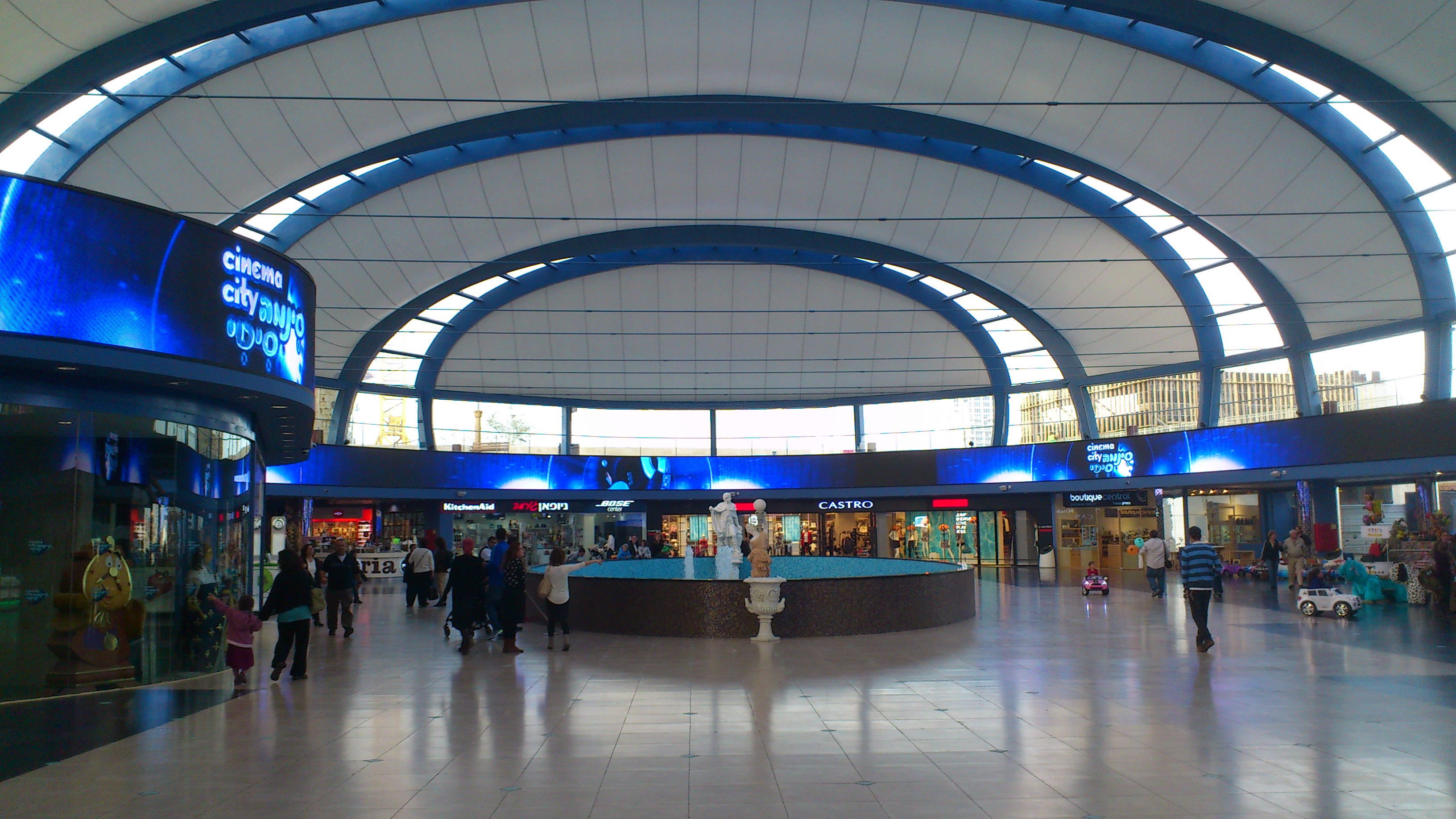 Cinema City Jerusalem